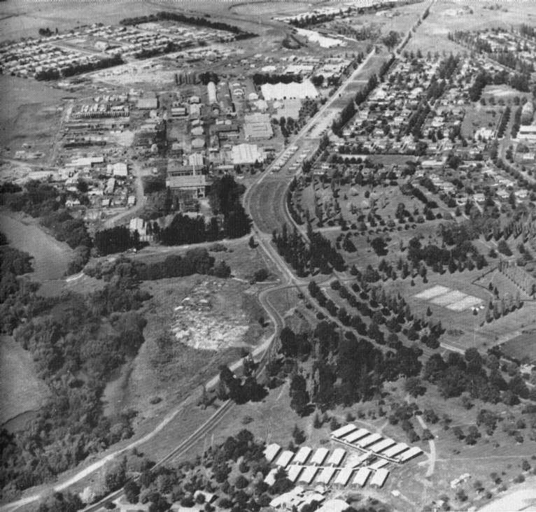 Kingston from the air c1952